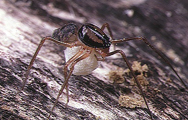 female Scytodes fusca (with egg sac) from Okinawa.